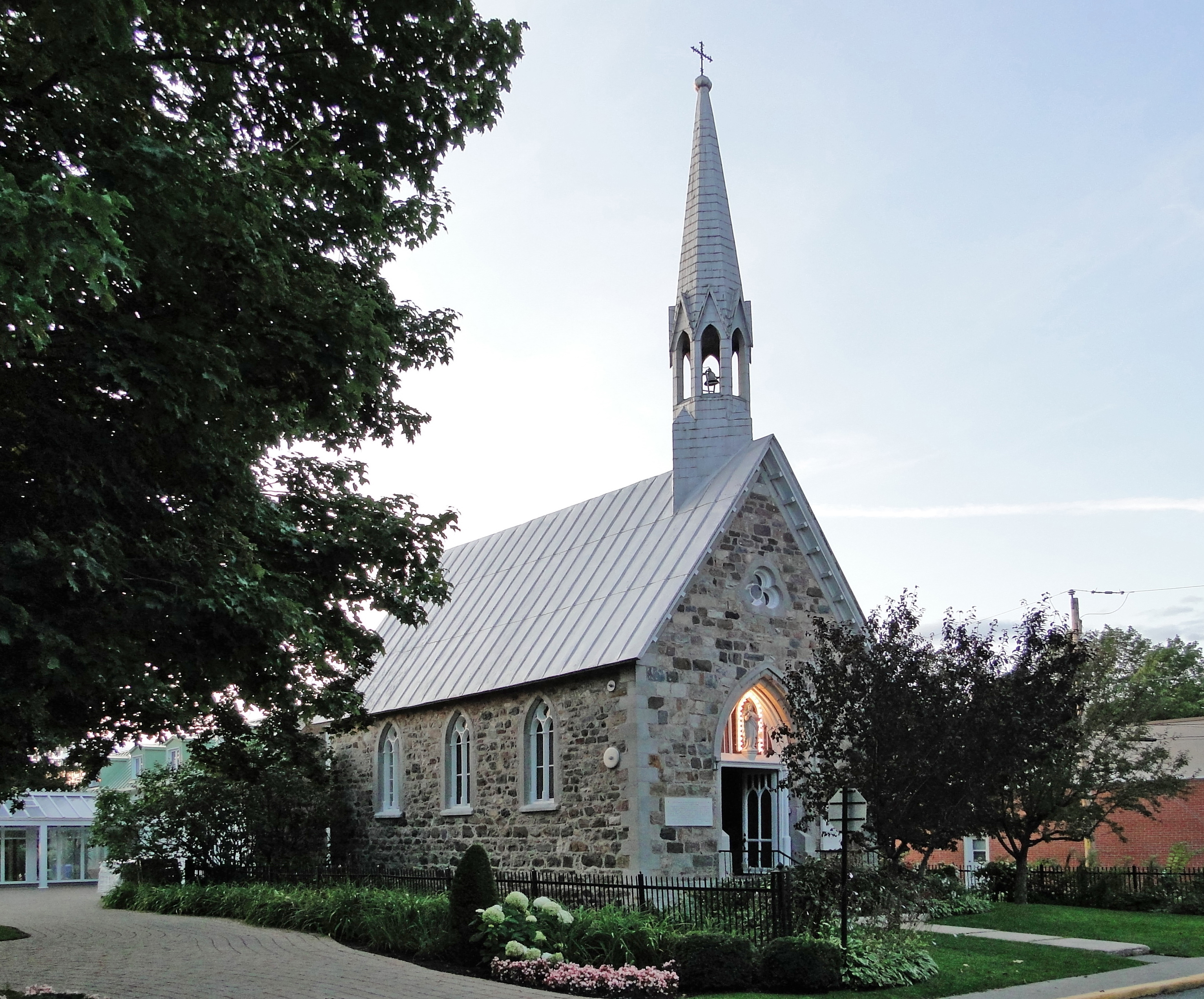 Saint Anne Processional Chapel (1862), Varennes, province of Quebec, Canada